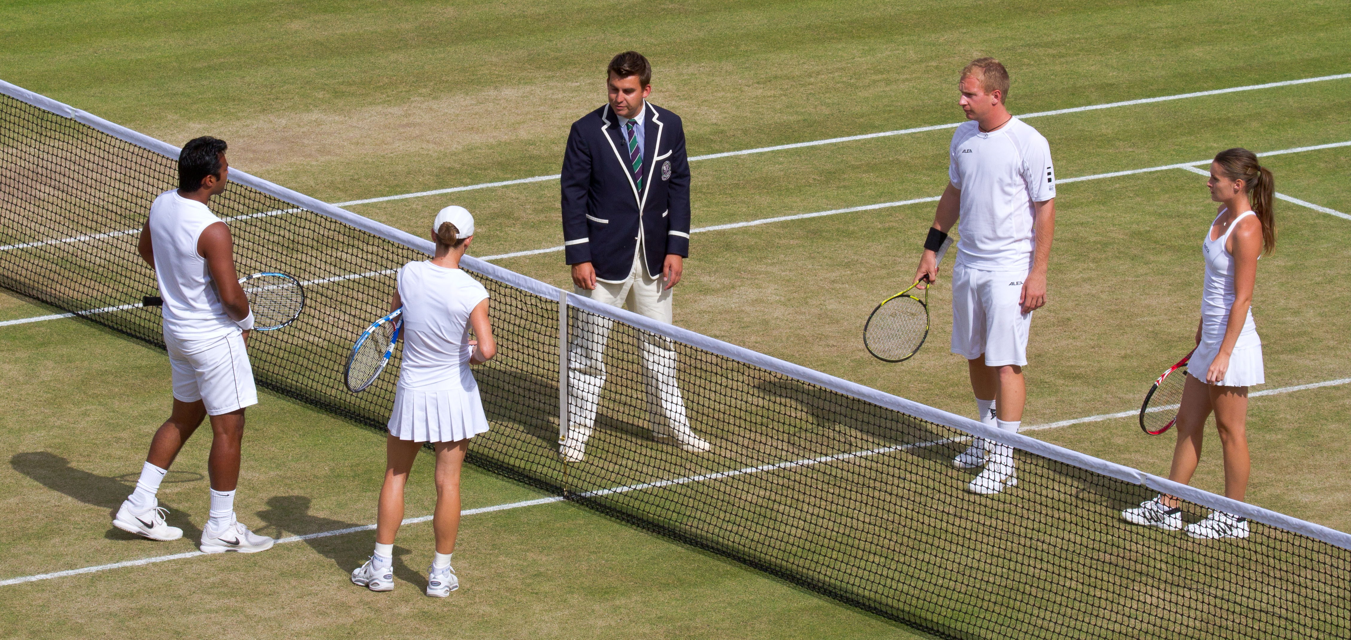 Mixed doubles match at Wimbledon 2010 (semi finals)